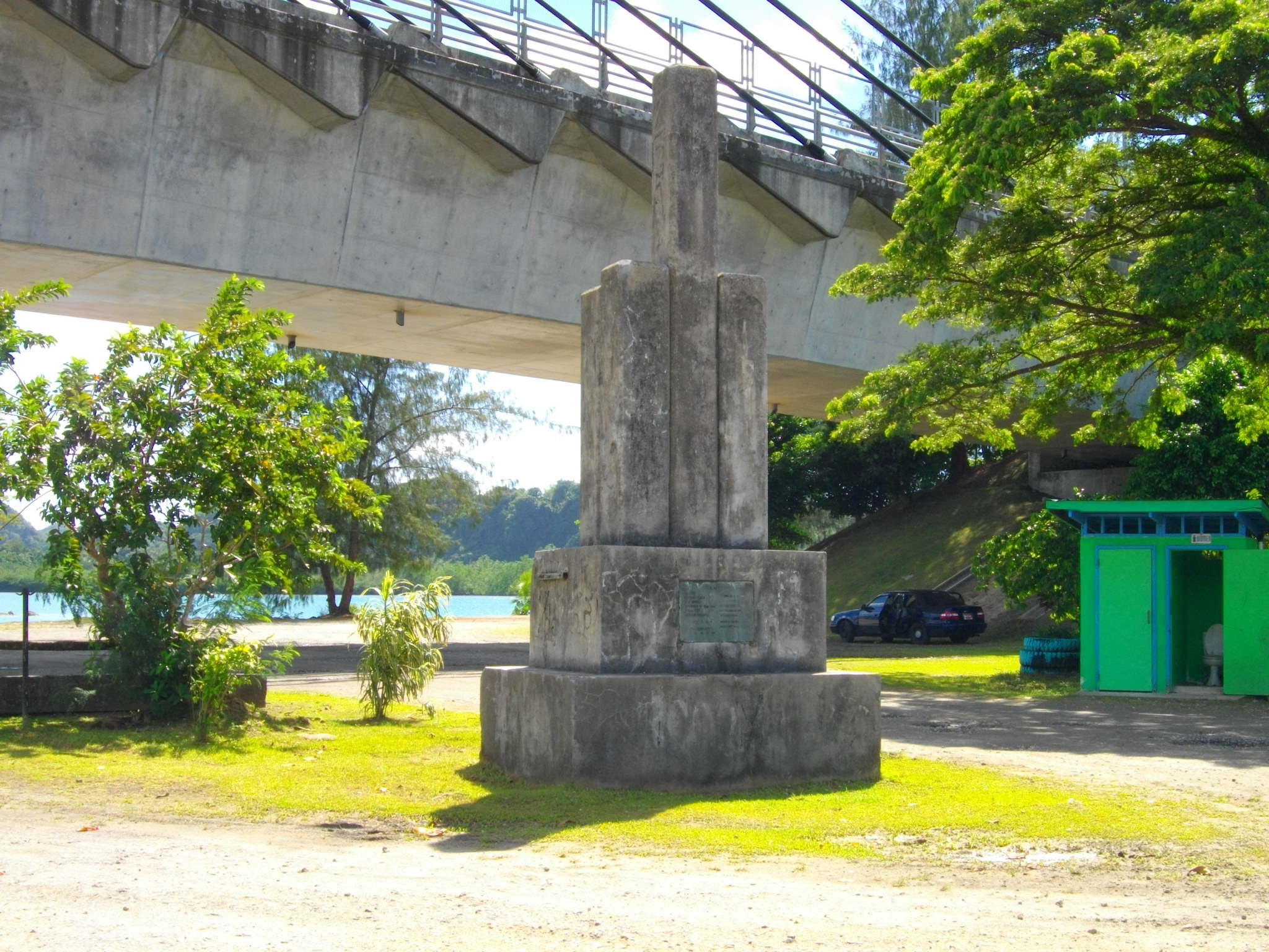 Former Koror-Babeldaob Bridge monument